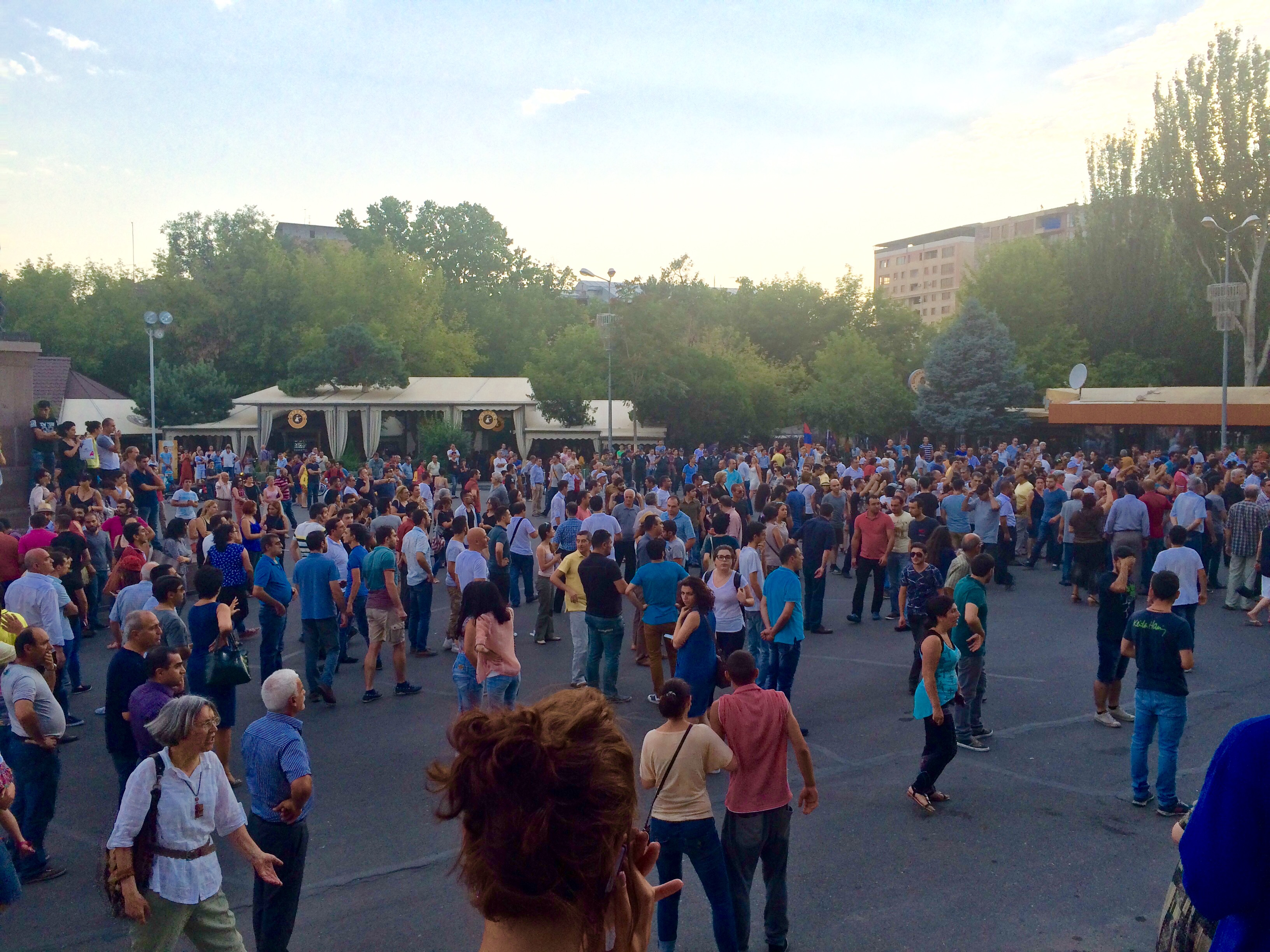 Protests in Liberty Square, Downtown Yerevan.